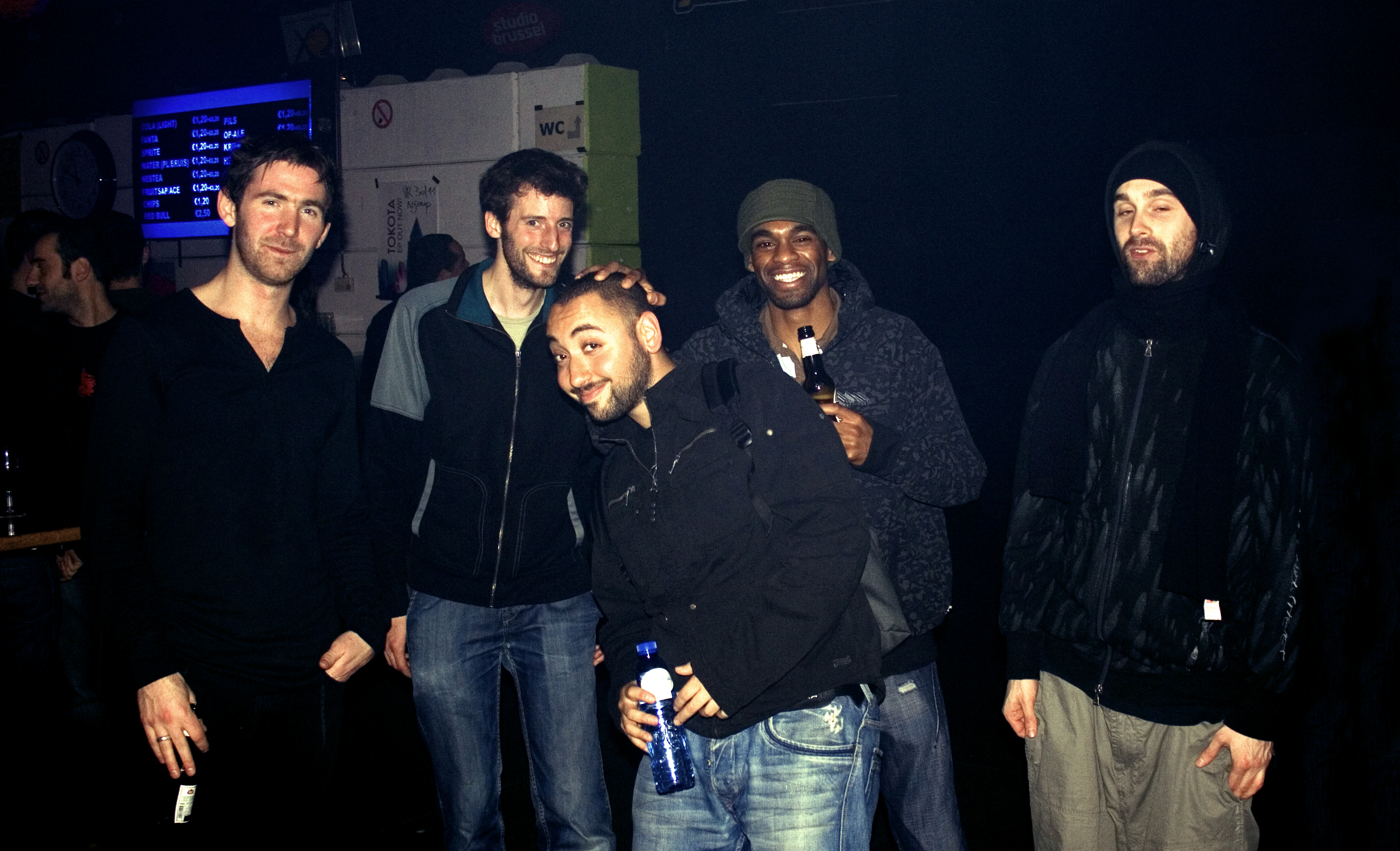 Stateless, posing after performing live at Jeugdhuis Nijdrop